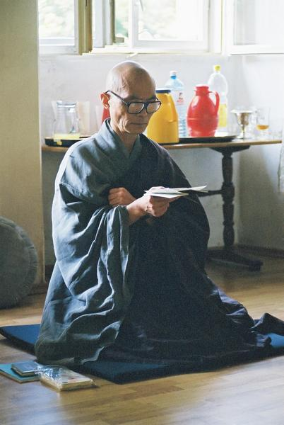 Kosho Murakami Roshi